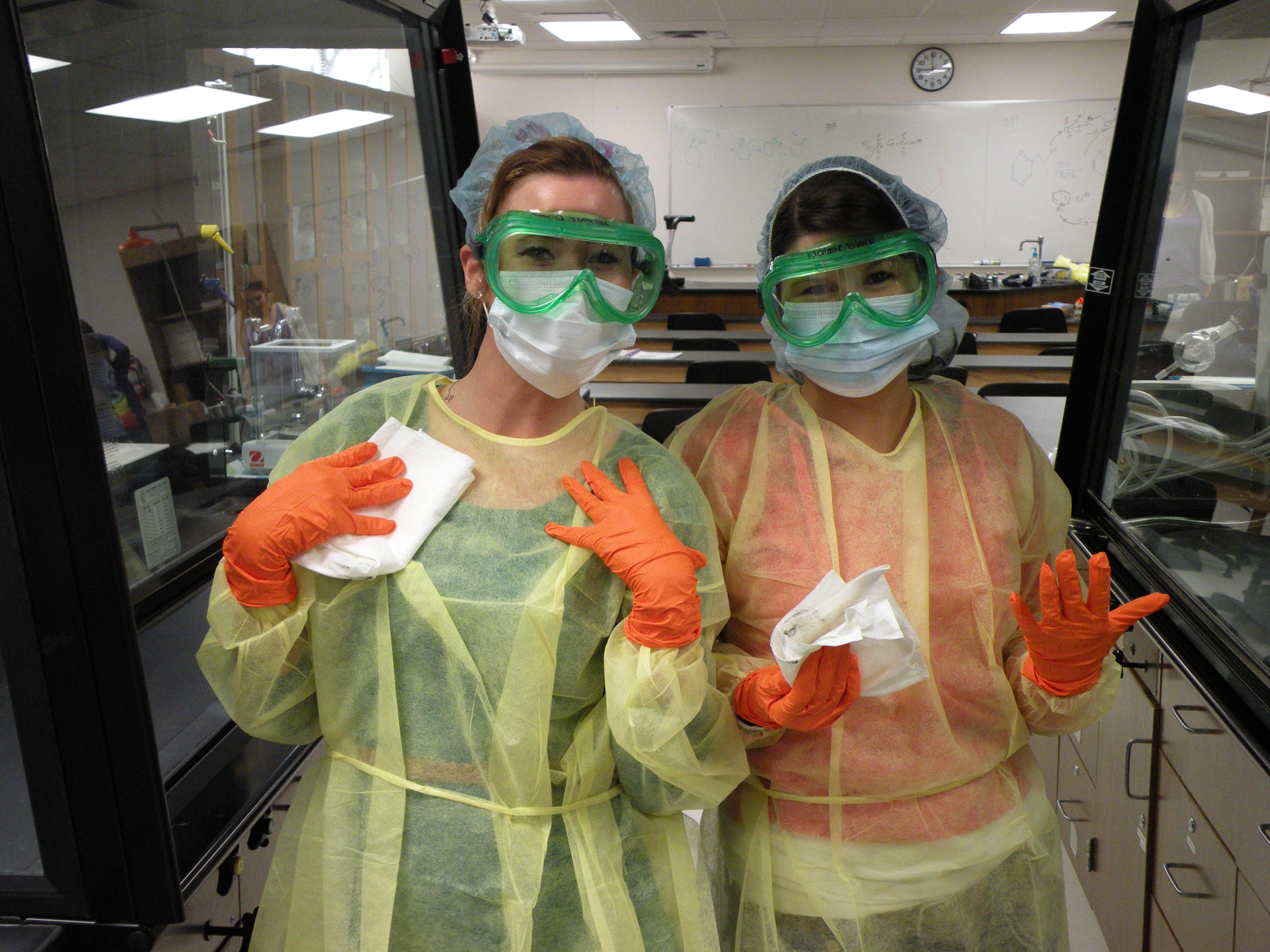 This is a picture of two former students after cleaning the hoods in the chemistry lab.